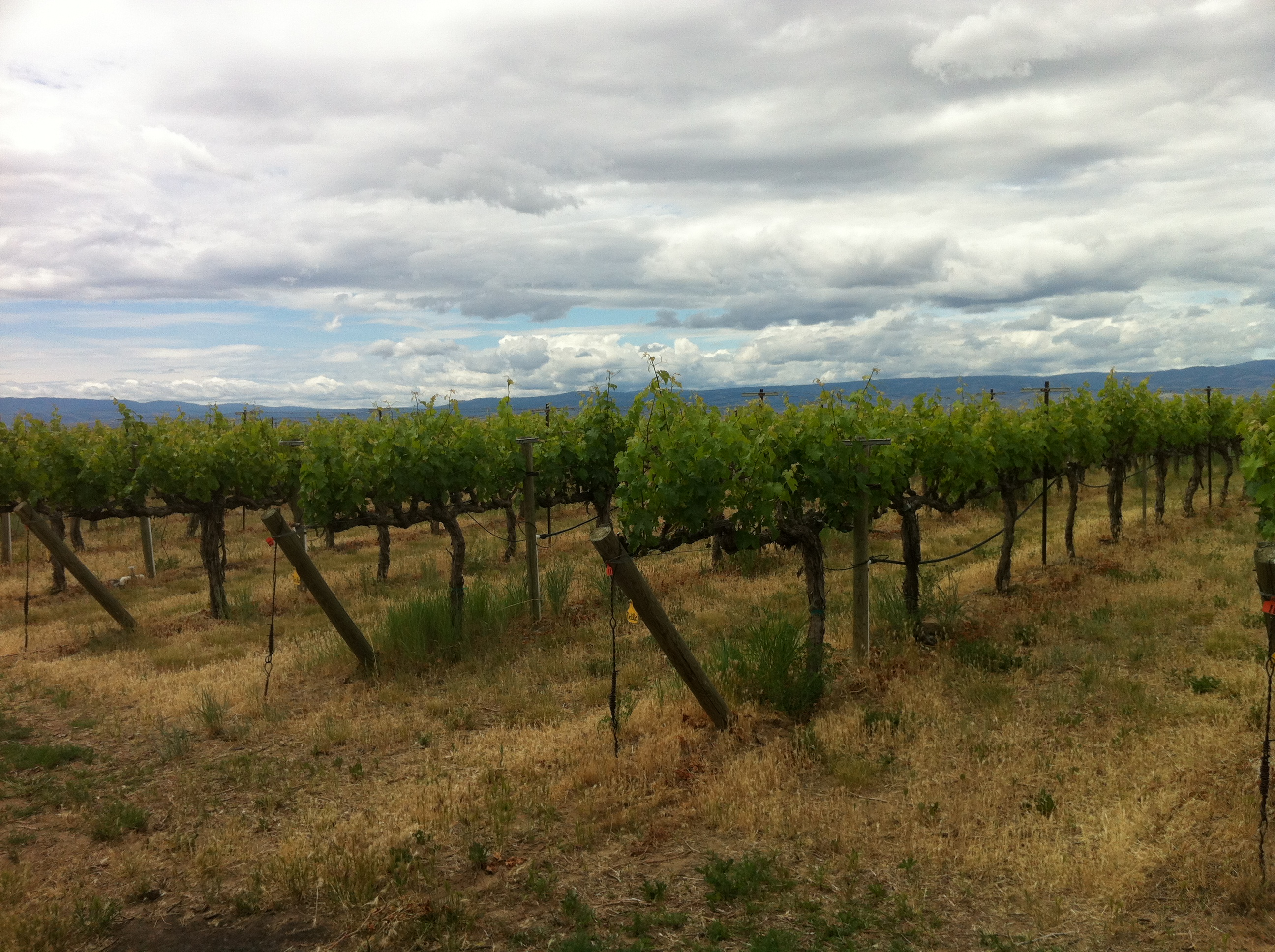 First Cabernet Franc plantings in Washington state at Red Willow Vineyard in the Yakima Valley AVA